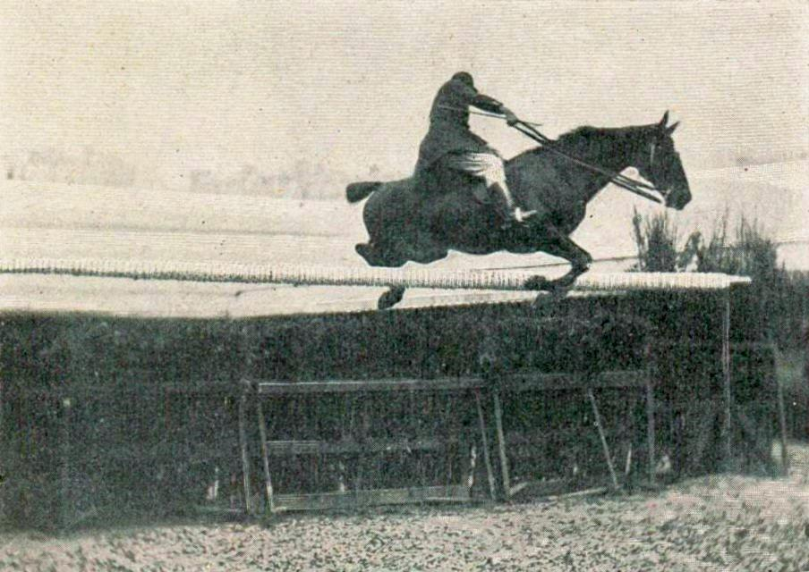 Dominique Gardères, winner in the equestrian highjump at the 1900 Olympic Games photography, reproduction, no restrictions on use